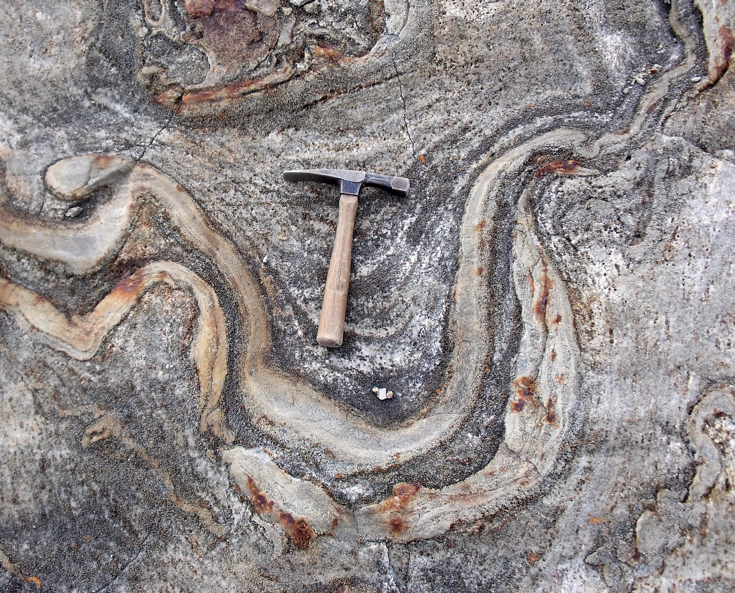 Stirred but not shaken until broken. Aphebian-aged marble exercising its ductility.